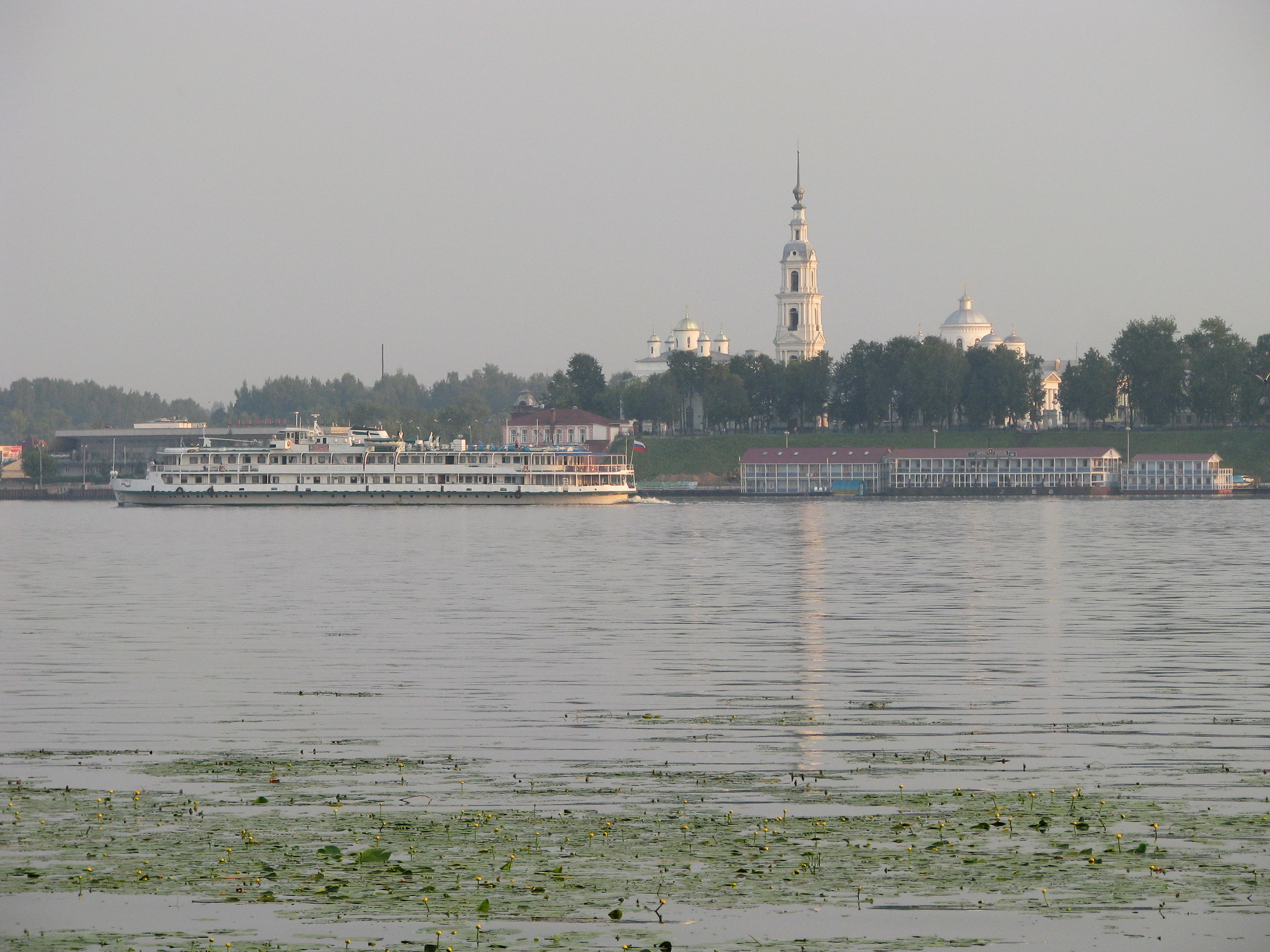 Кинешма. Вид с заволжского берега